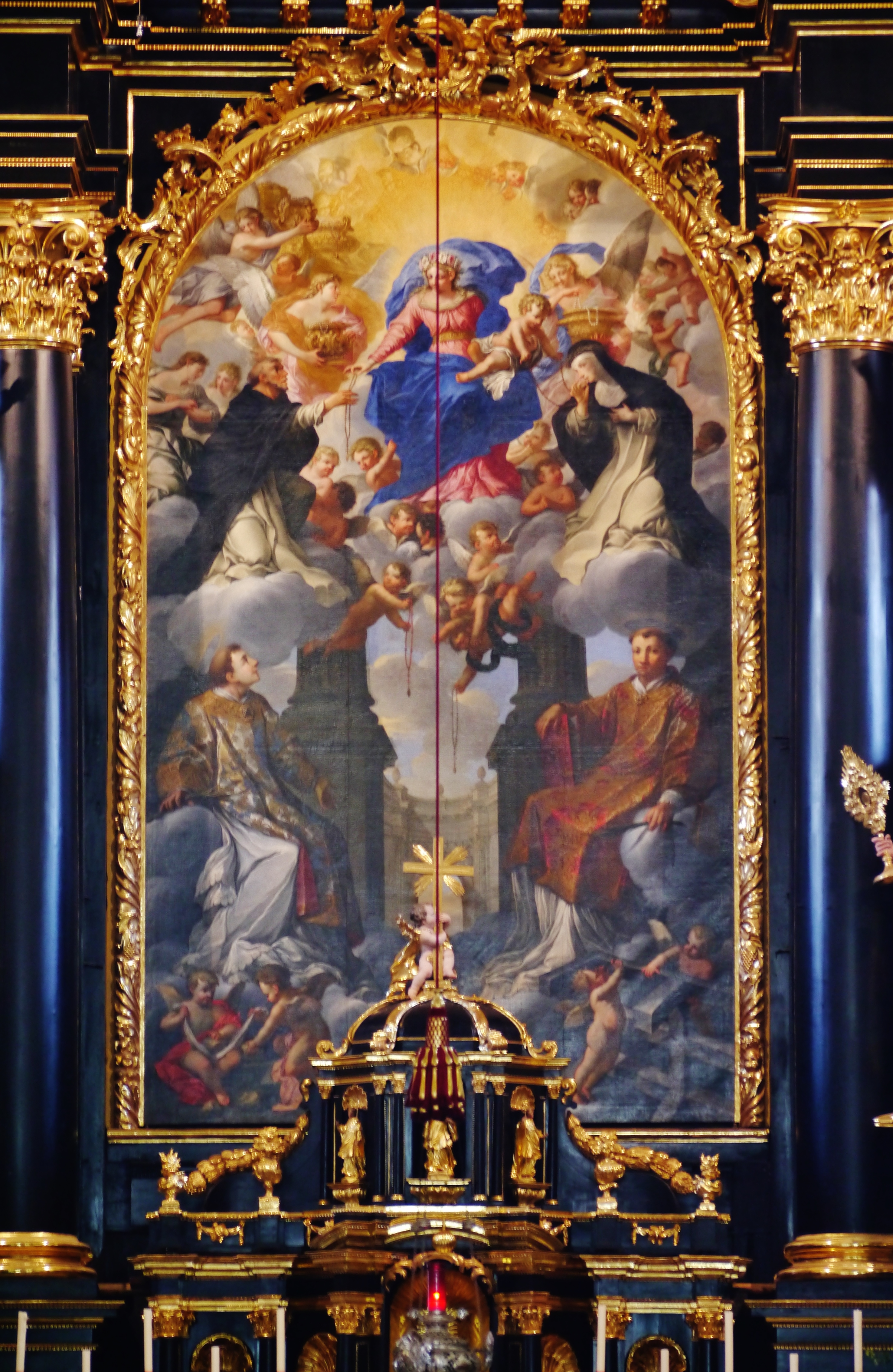 High Altar of Wilten Abbey Church, Innsbruck/Quarter Wilten, Tyrol, Austria